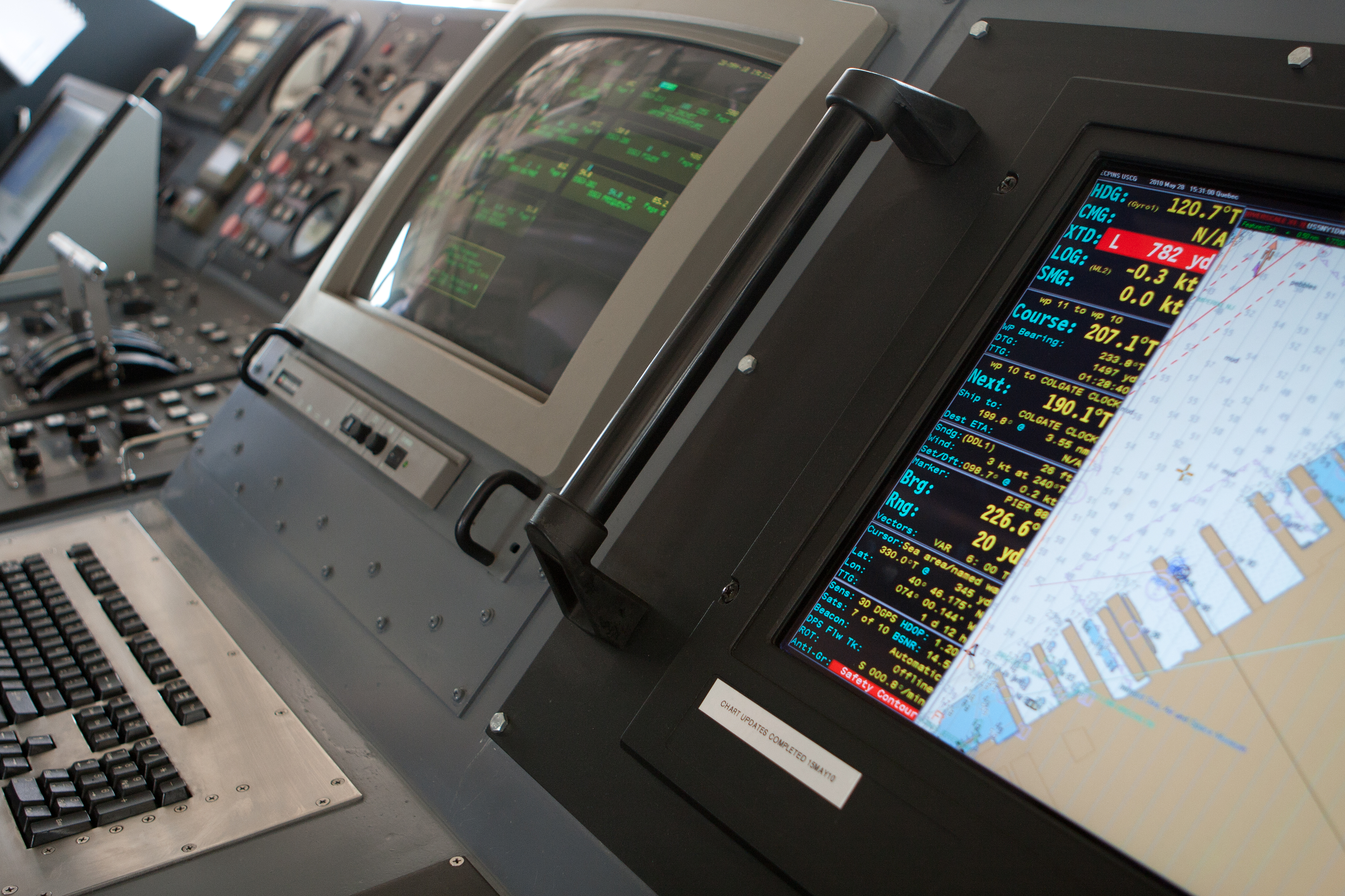 Some of the controls and displays of the USCG Coastal Buoy Tender Katherine Walker (WLM-552) during Fleet Week 2010 in New York City